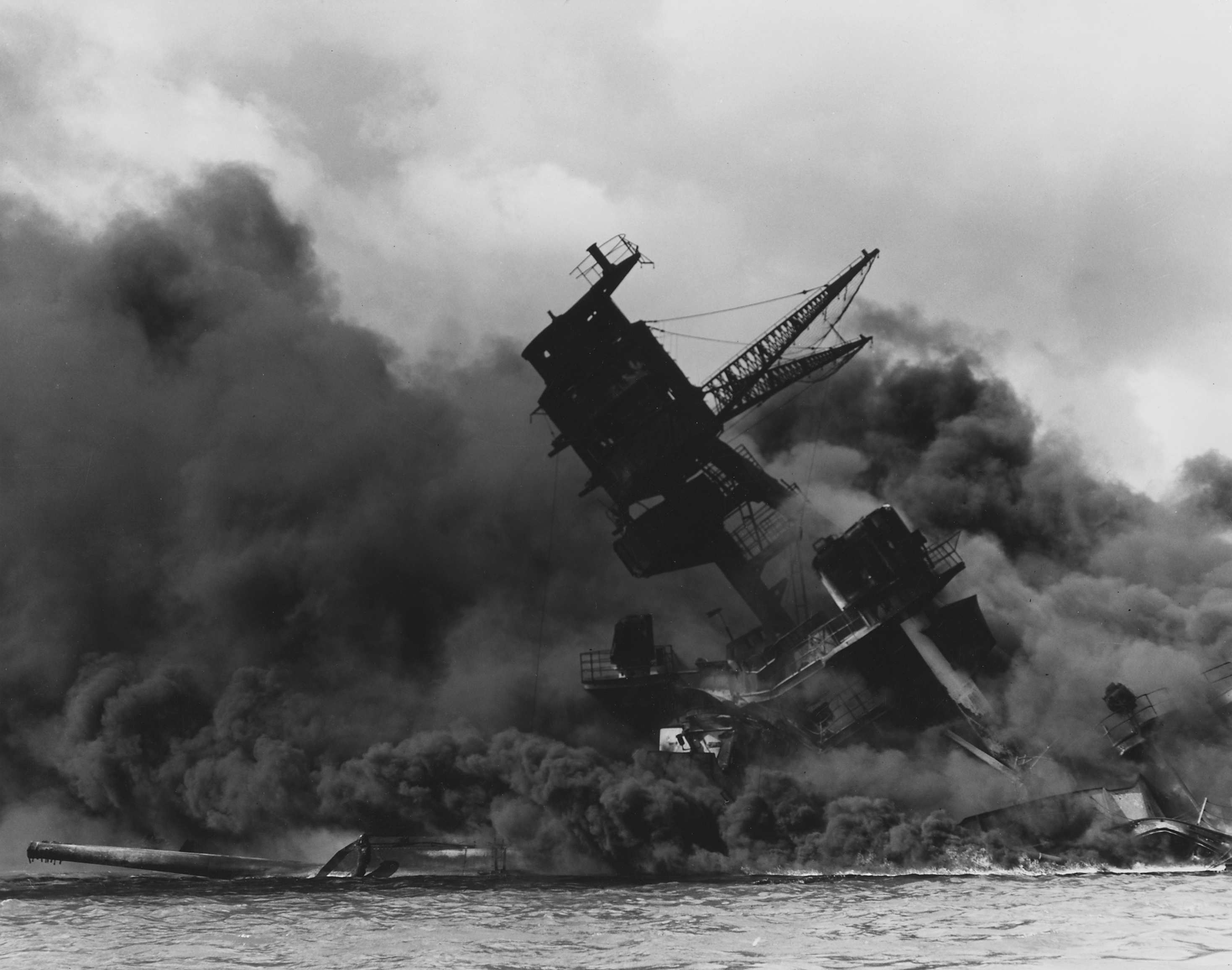 The USS Arizona (BB-39) burning after the Japanese attack on Pearl Harbor, 7 December 1941. USS Arizona sunk at Pearl Harbor. The ship is resting on the harbor bottom. The supporting structure of the forward tripod mast has collapsed after the forward magazine exploded.